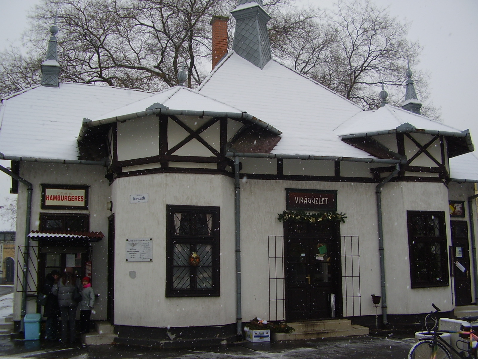 Former railway station in Kossuth tér of the former narrow-gauge railway AEGV in Békéscsaba, Hungary